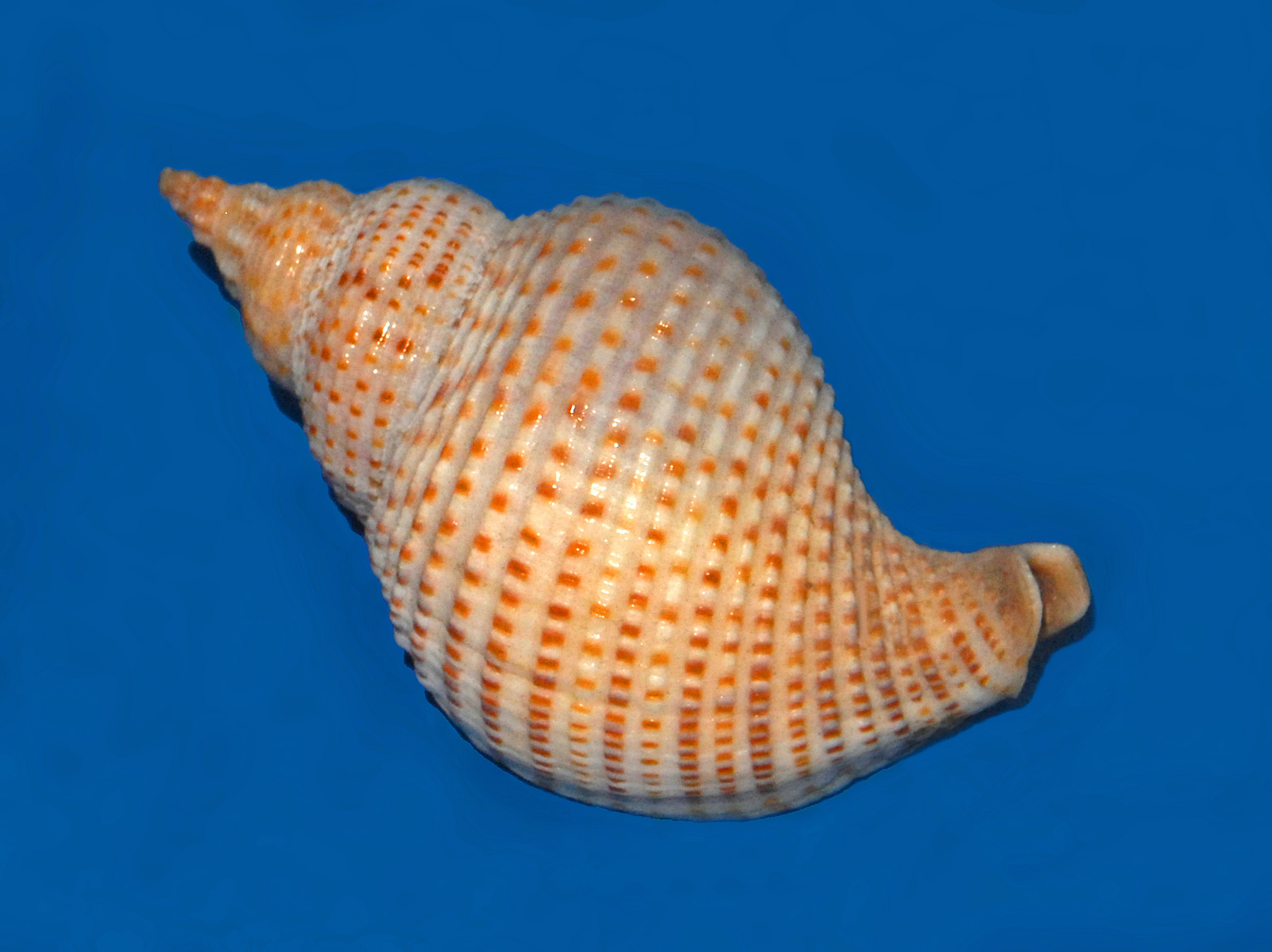 Shell of Siphonalia pfefferi from Japan at the Museo Civico di Storia Naturale di Milano